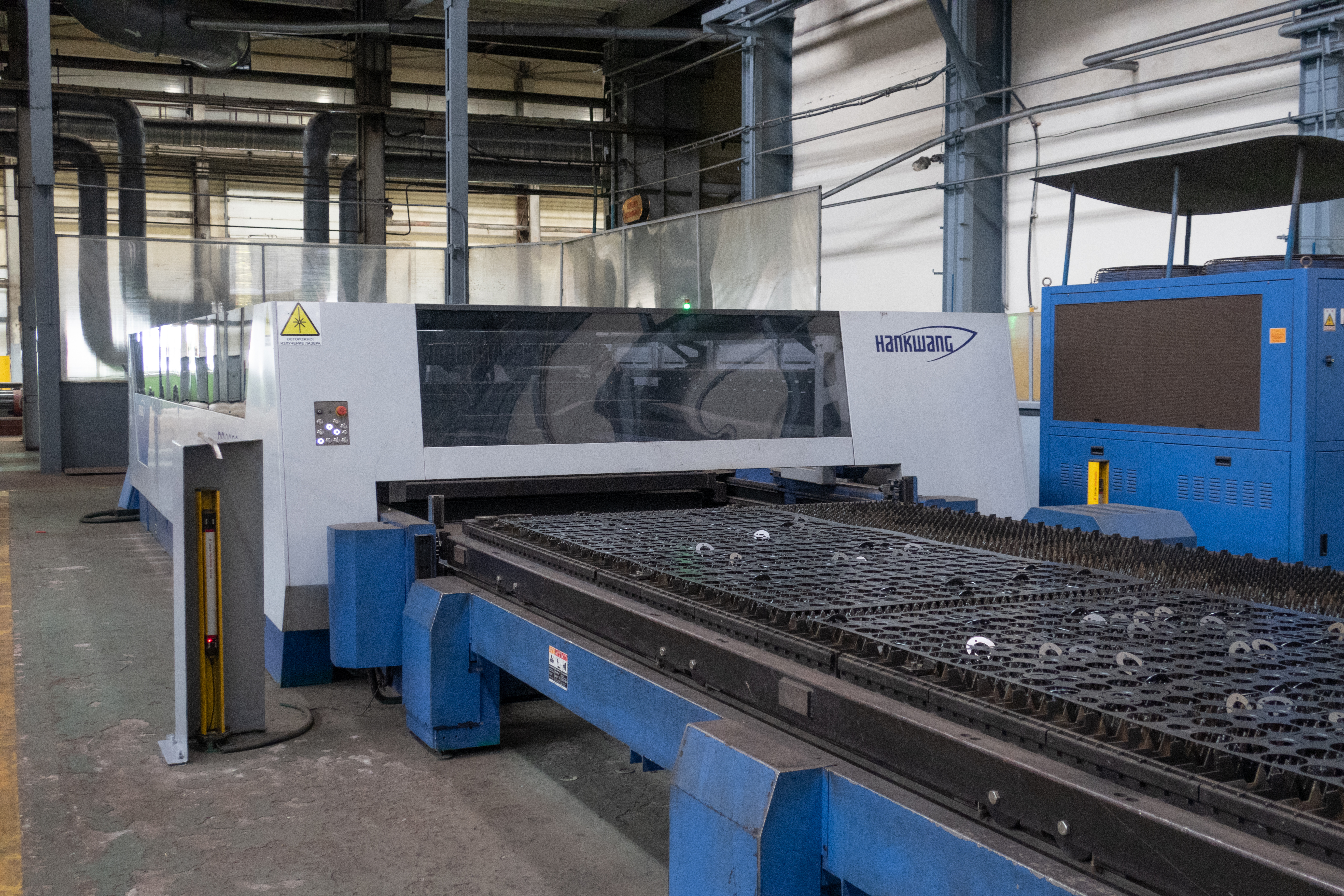 Seen at MZKT (Volat) open day 2019 (Minsk, Belarus)